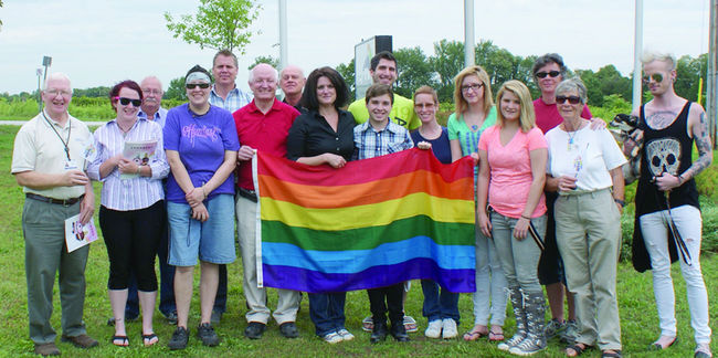 Oro-Medonte Township was one of several Simcoe County communities Tuesday that raised a flag for pride week, which runs until August 10, 2013